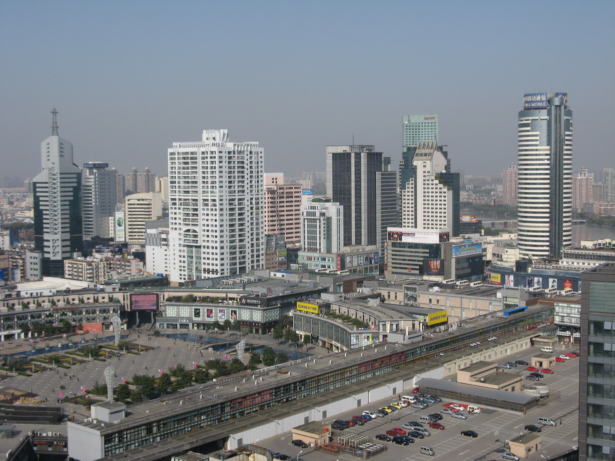 The bustling downtown of Ningbo City with the nationwide famous shopping complex Tianyi Square, named after the Tianyi Ge (Chamber), the oldest private library in China.